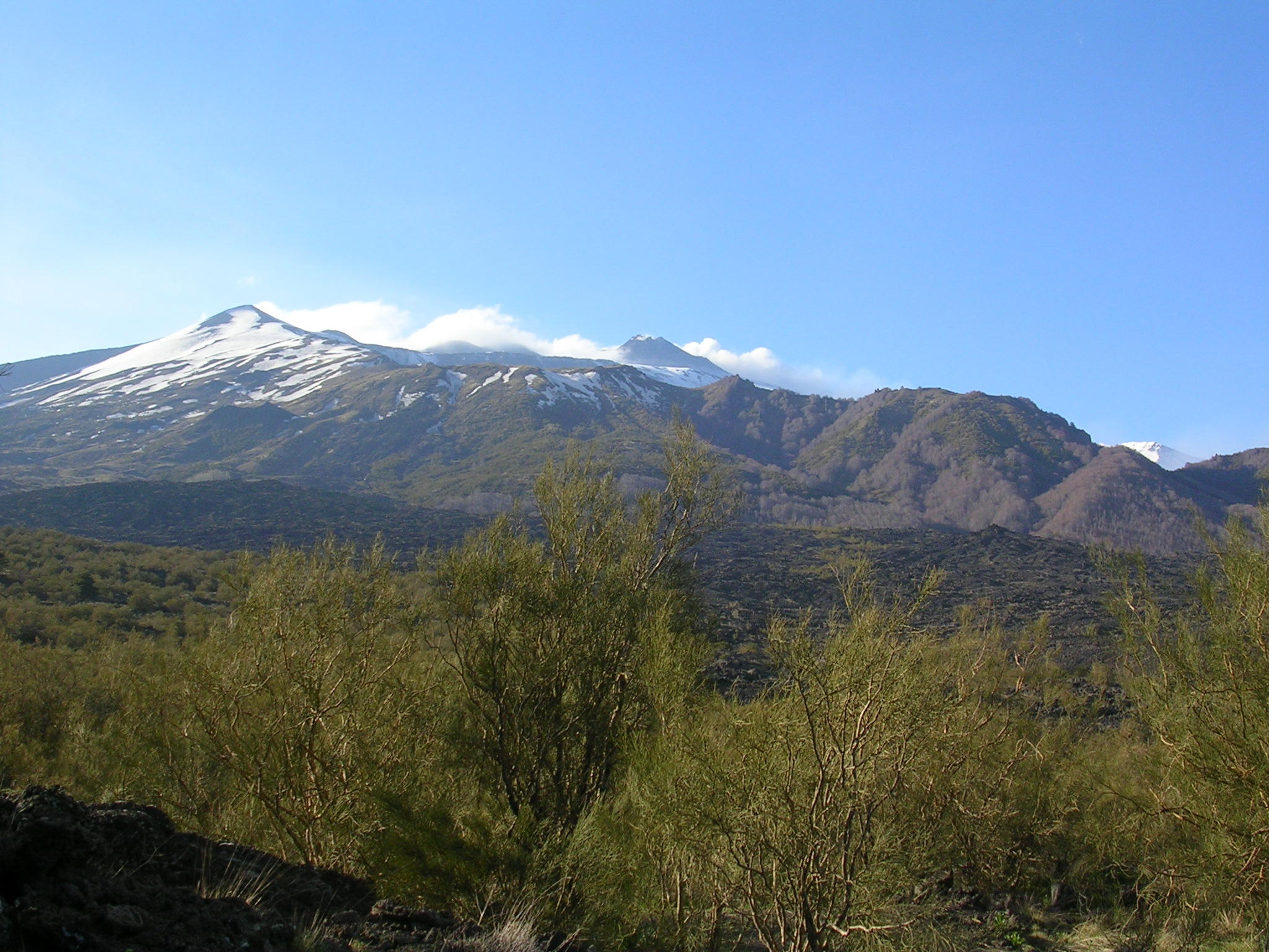 Mount Etna seen from Sciammaro Lupo (Trecastagni - CT)